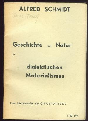 Pirated edition of Alfred Schmidts Geschichte und Natur im dialektischen Materialismus, ca. 1970.